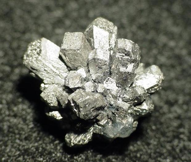 Gratonite Locality: Excelsior Mine, Cerro de Pasco, Daniel Alcides Carrión Province, Pasco Department, Peru (Locality at ) VERY choice example of this extremely rare mineral species. This is a floater cluster, resembling a flower in appearance in person. The largest crystals reach 6 or 7 mm, which is large for the species. 1.7 x 1.6 x 1.5 cm